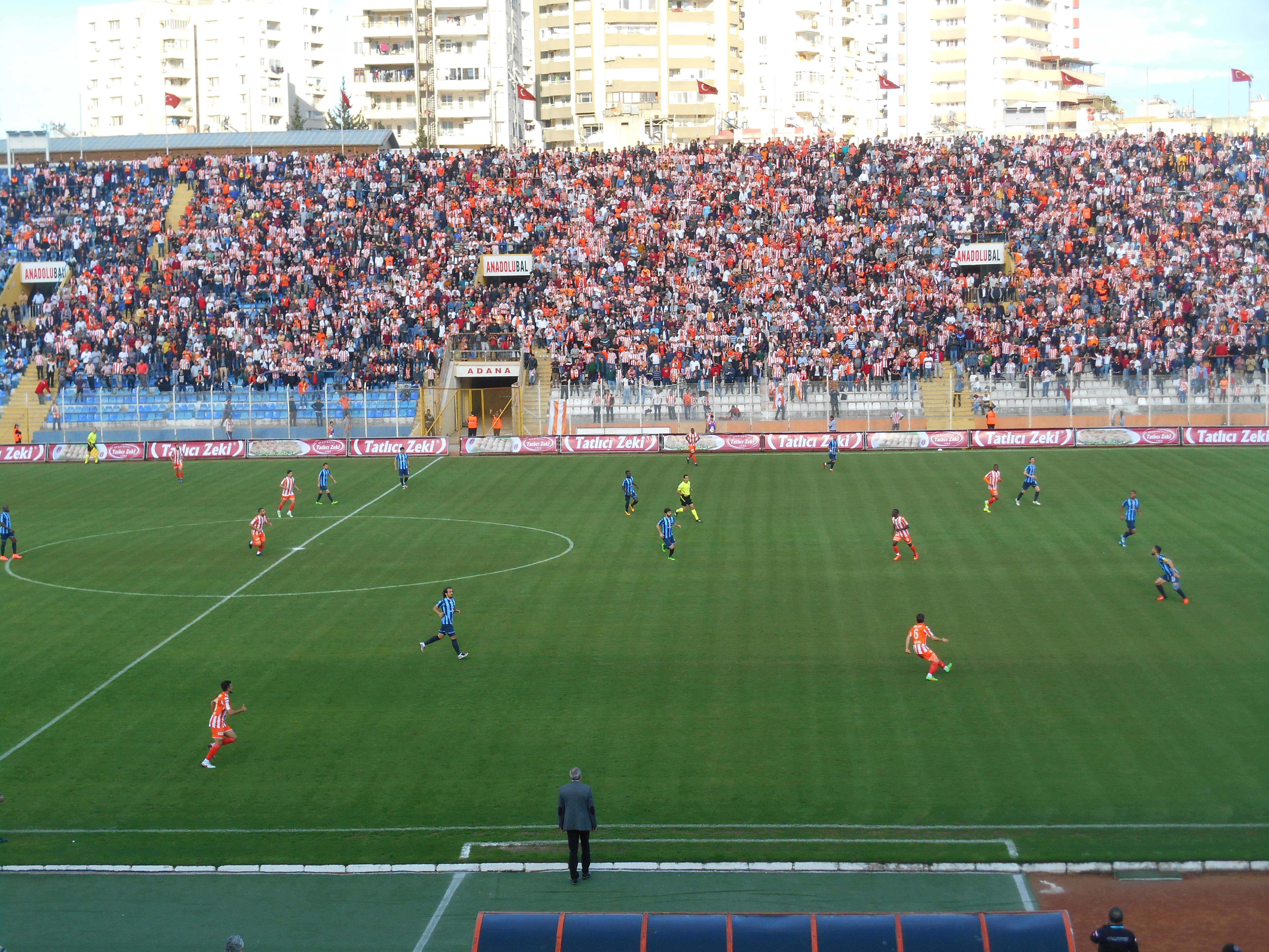 During gene